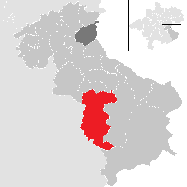 district Steyr-Land